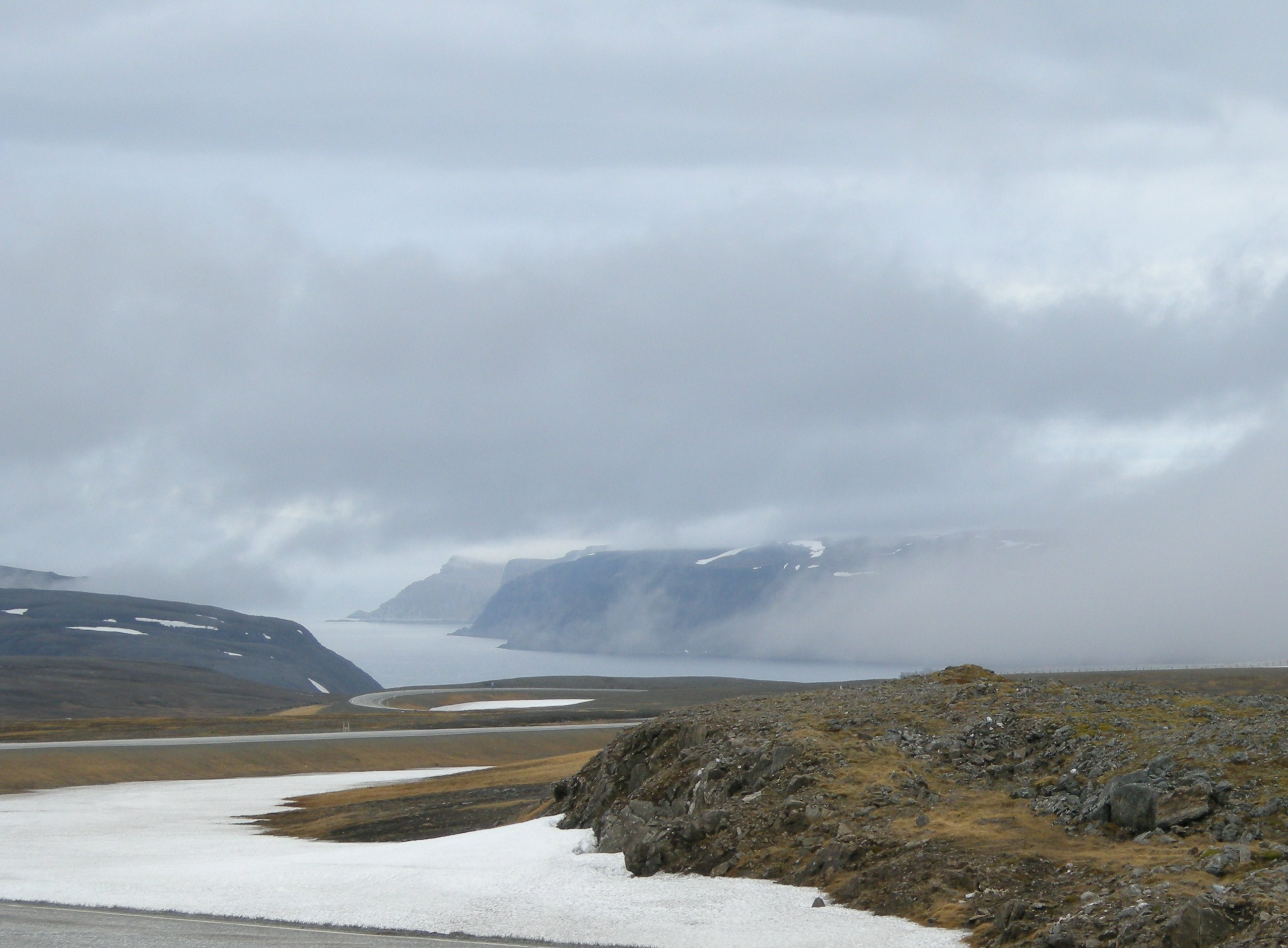 Magerøya island - the road to North Cape - Tufjorden